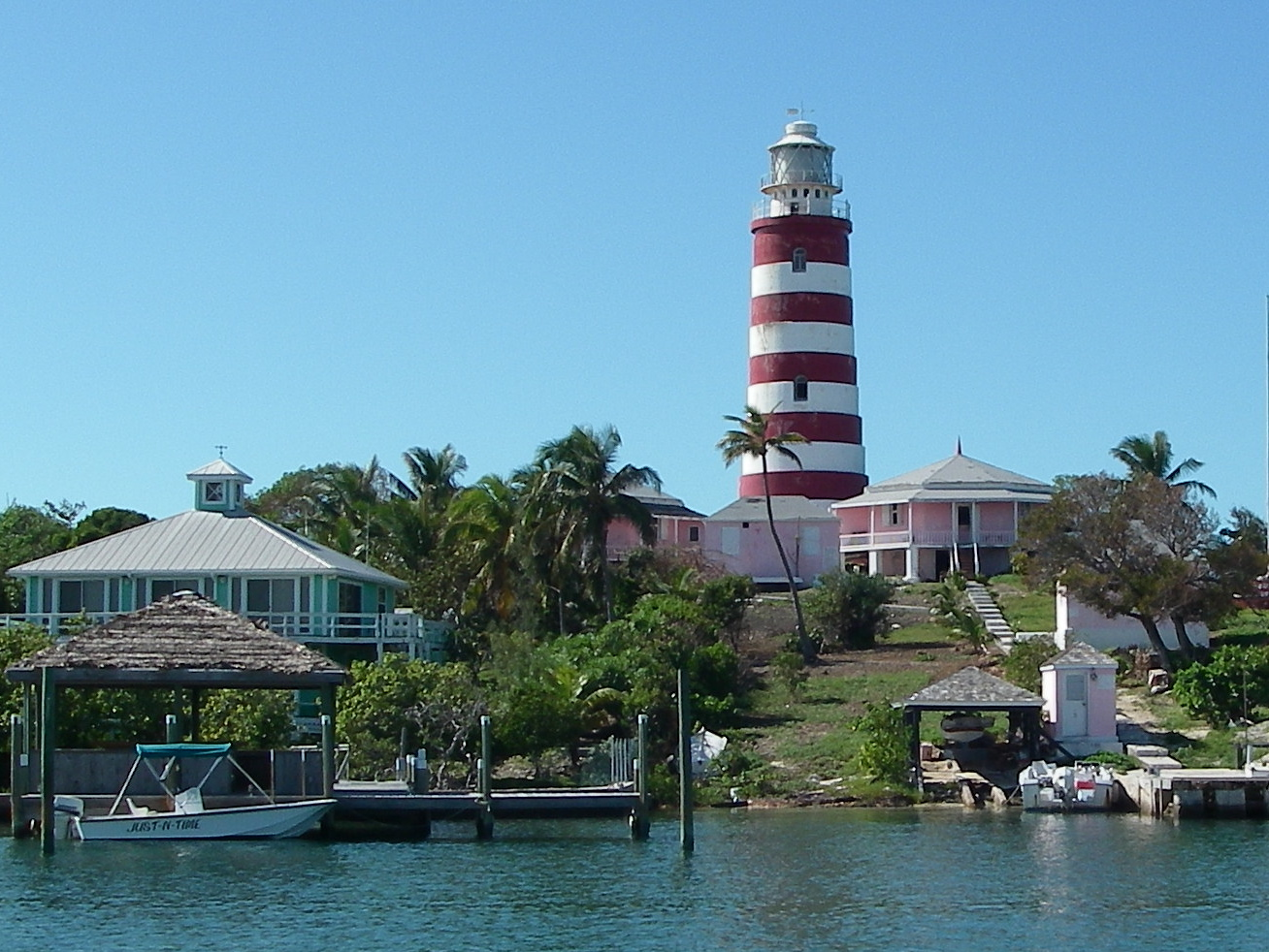 Hopetown Lighthouse, Elbow Cay, Abacos, Bahamas